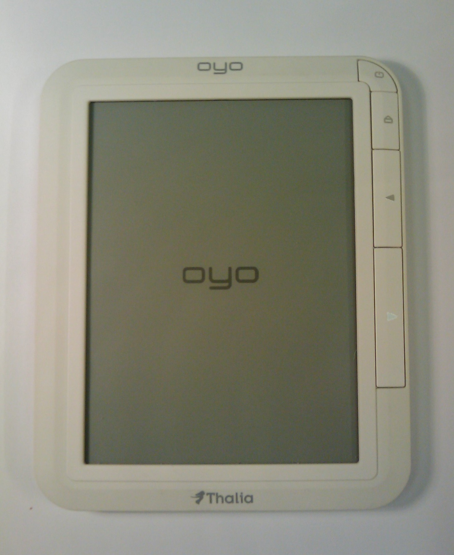 This is the OYO ebook reader, produced by MEDION, sold in Austria. (Touchscreen, WLAN)